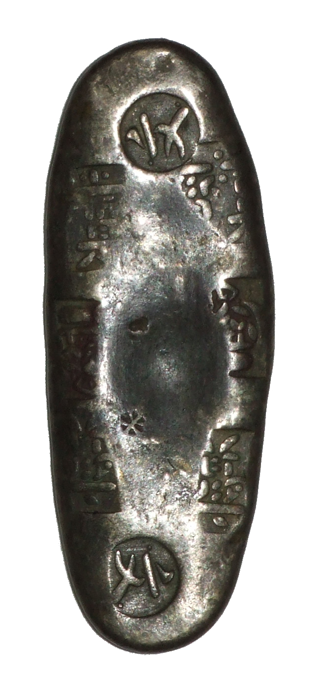 Shinbunzi-chogin(silver)